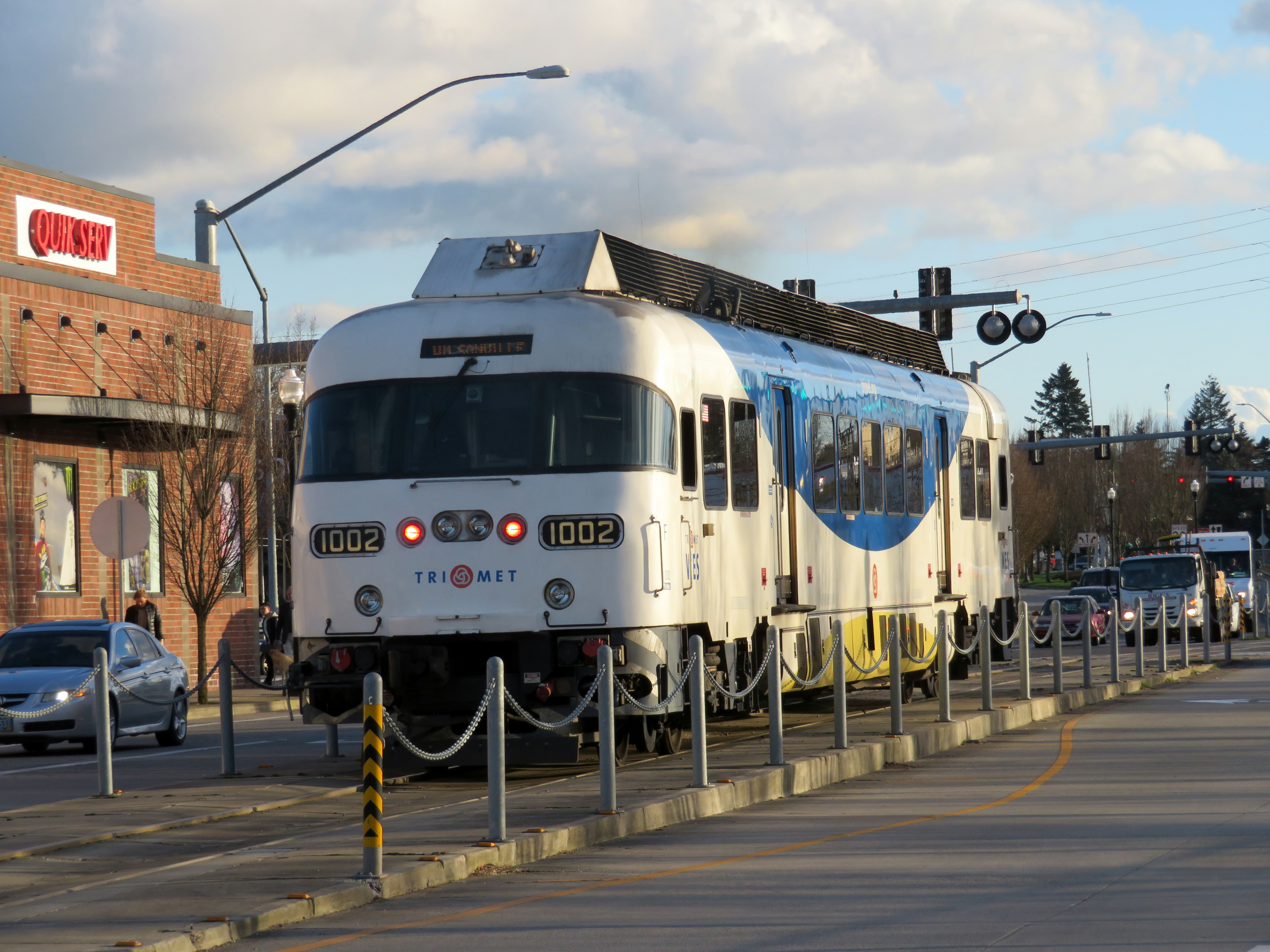 WES #1002 in the median of SW Lombard Avenue south of Beaverton Transit Center in February 2018